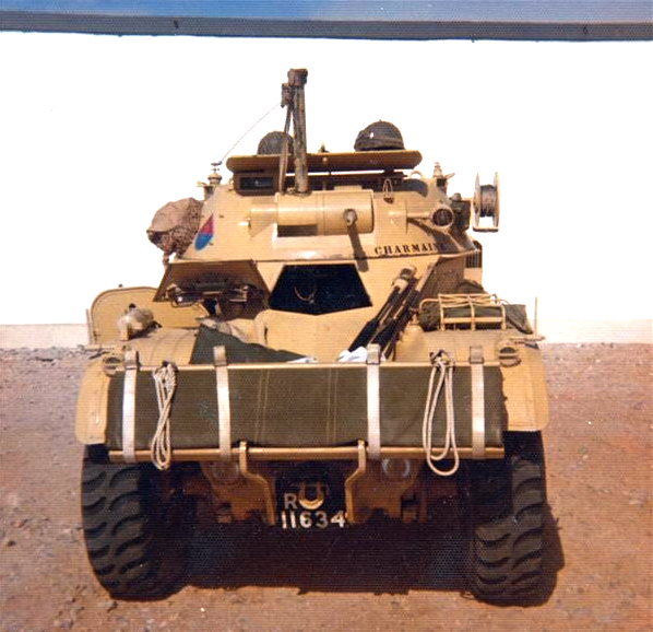 An Eland-60 armoured car used for Rooikop Troop Training.